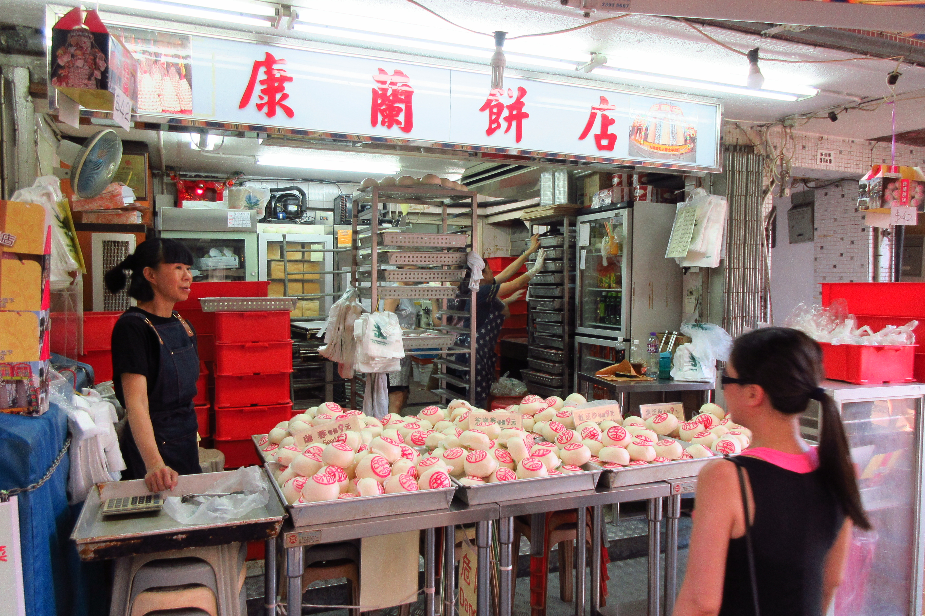 HK 長洲 Cheung Chau 新興海傍街 San Hing Praya Road in May 2018